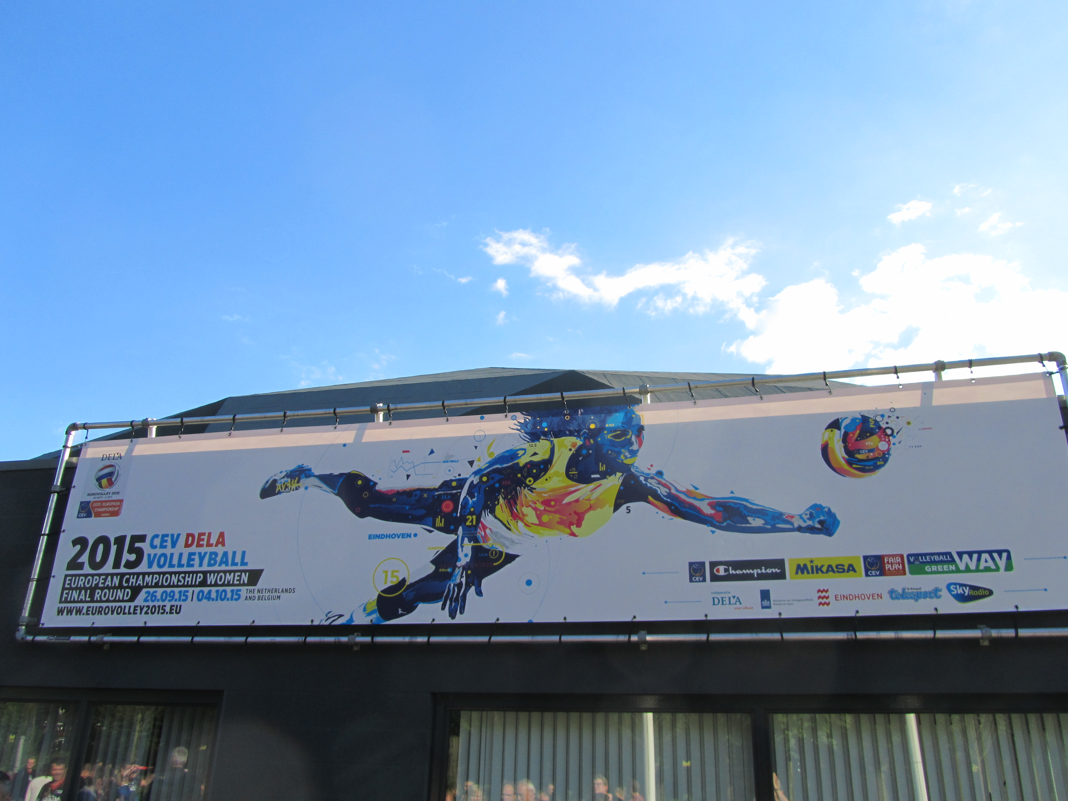 Banner of the Women's European Volleyball Championship 2015, displayed at the Indoor Sportcentrum in Eindhoven (Netherlands)